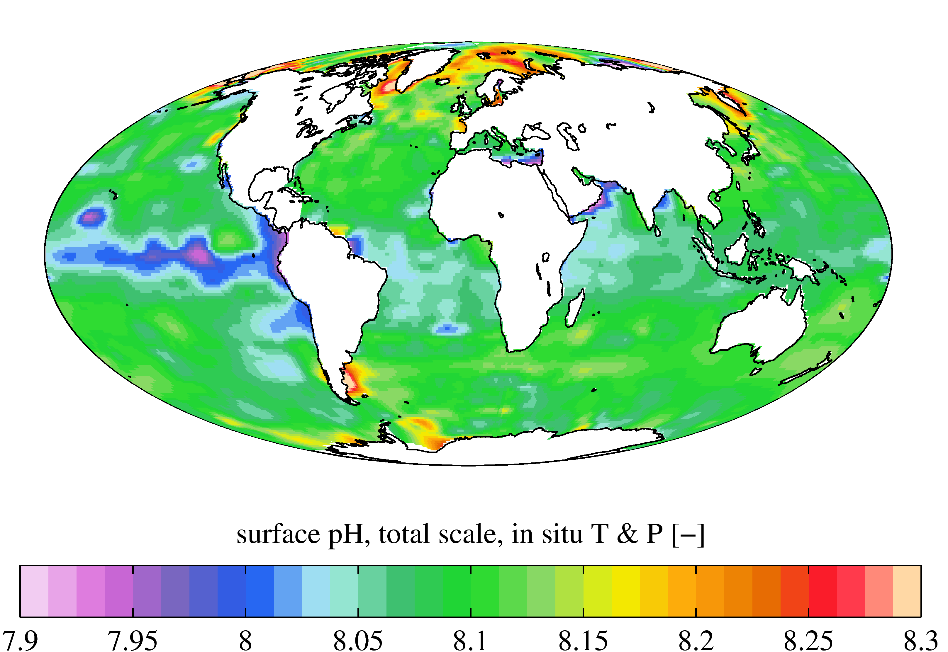 Calculated annual mean sea surface pH for the present day (normalised to year 2002) from the Global Ocean Data Analysis Project v2 (GLODAPv2) climatology. Sources are given below. The total scale of pH is used at in situ temperature and pressure. It is plotted here using a Mollweide projection (using MATLAB v2013a). Note that the GLODAPv2 climatology is missing data in certain oceanic provinces including the Arctic Ocean, the Caribbean Sea and certain inland seas. Lauvset, S. K., Key, R. M., Olsen, A., van Heuven, S., Velo, A., Lin, X., Schirnick, C., Kozyr, A., Tanhua, T., Hoppema, M., Jutterström, S., Steinfeldt, R., Jeansson, E., Ishii, M., Perez, F. F., Suzuki, T., and Watelet, S.: A new global interior ocean mapped climatology: the 1° × 1° GLODAP version 2, Earth Syst. Sci. Data, 8, 325-340, 2016 Key, R.M., A. Olsen, S. van Heuven, S. K. Lauvset, A. Velo, X. Lin, C. Schirnick, A. Kozyr, T. Tanhua, M. Hoppema, S. Jutterström, R. Steinfeldt, E. Jeansson, M. Ishi, F. F. Perez, and T. Suzuki. 2015. Global Ocean Data Analysis Project, Version 2 (GLODAPv2), ORNL/CDIAC-162, NDP-P093. Carbon Dioxide Information Analysis Center, Oak Ridge National Laboratory, US Department of Energy, Oak Ridge, Tennessee.